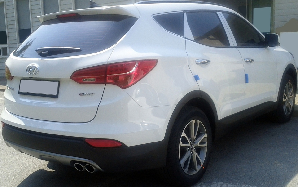 Hyundai Santa Fe